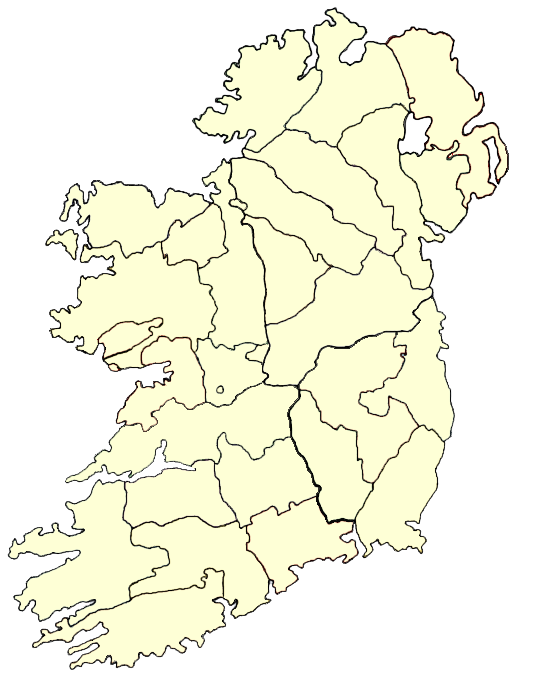 Catholic Diocese of Ireland. This is a current map of the ecclesiastical diocese of the Catholic Church in Ireland.